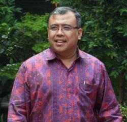 Former Indonesian Minister of Justice and Human Rights Patrialis Akbar